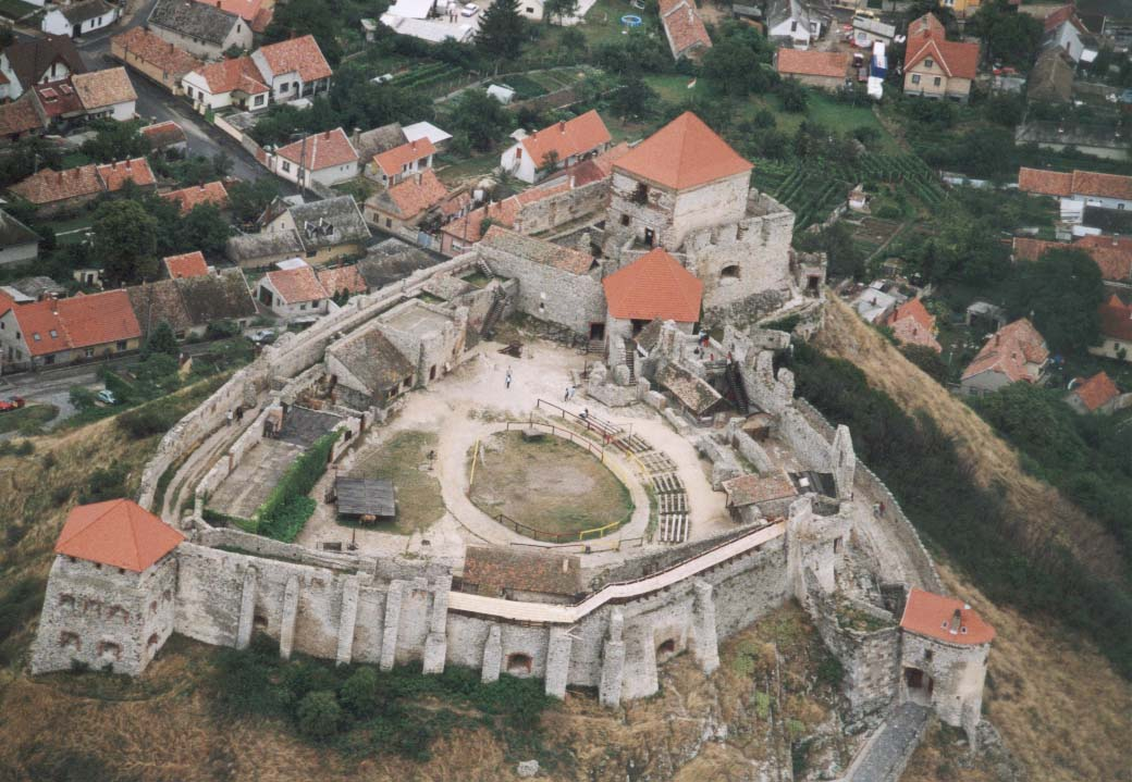 Castle - Sümeg - Hungary - Europe